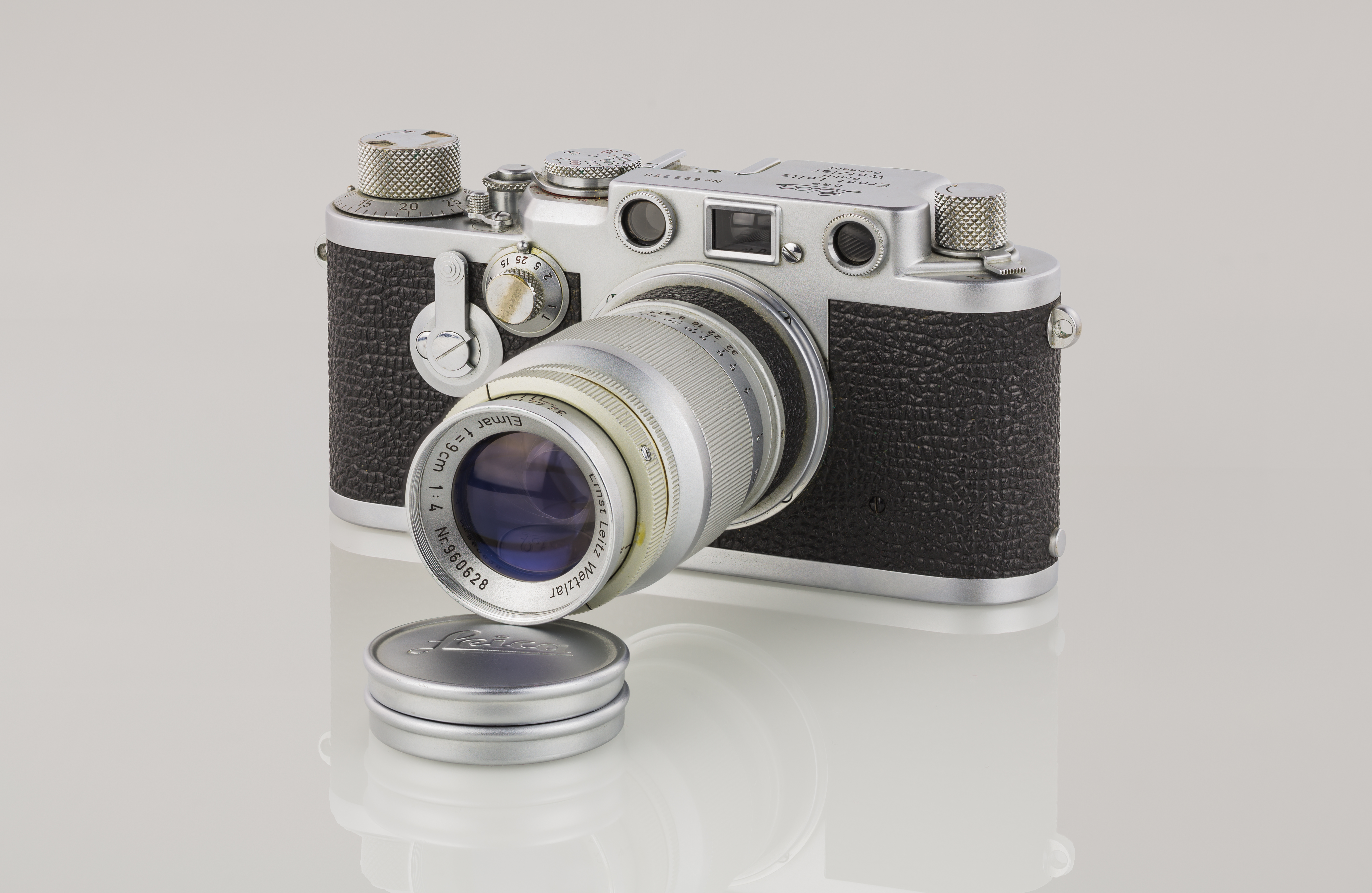 Leica IIIf Red Dial with self-timer Sn. 692358 - M39, 1954 - Mount: M39